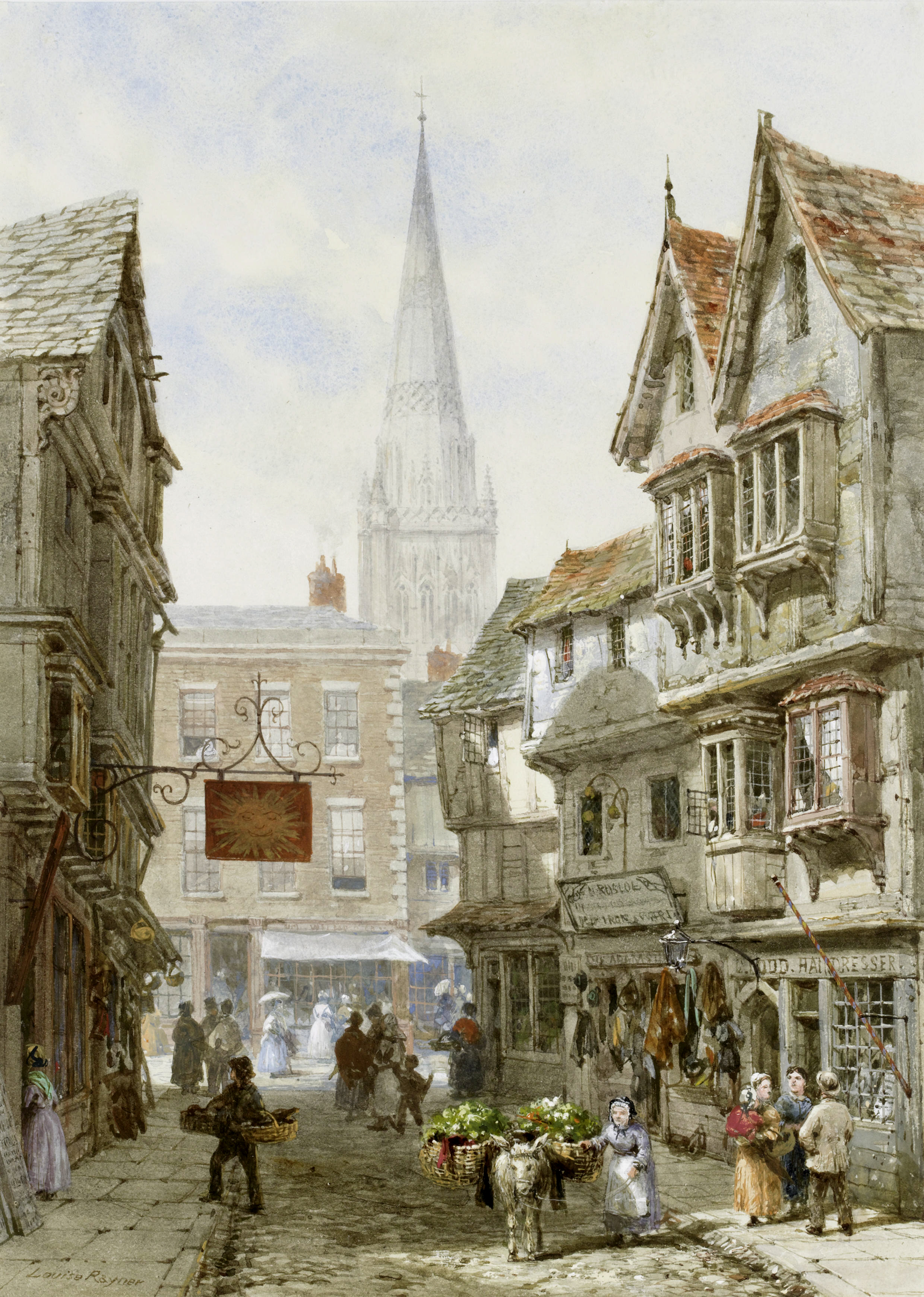 Minster Street, Salisbury. Signed Louise Rayner. Watercolour and gouache, 34.5 x 25 cm